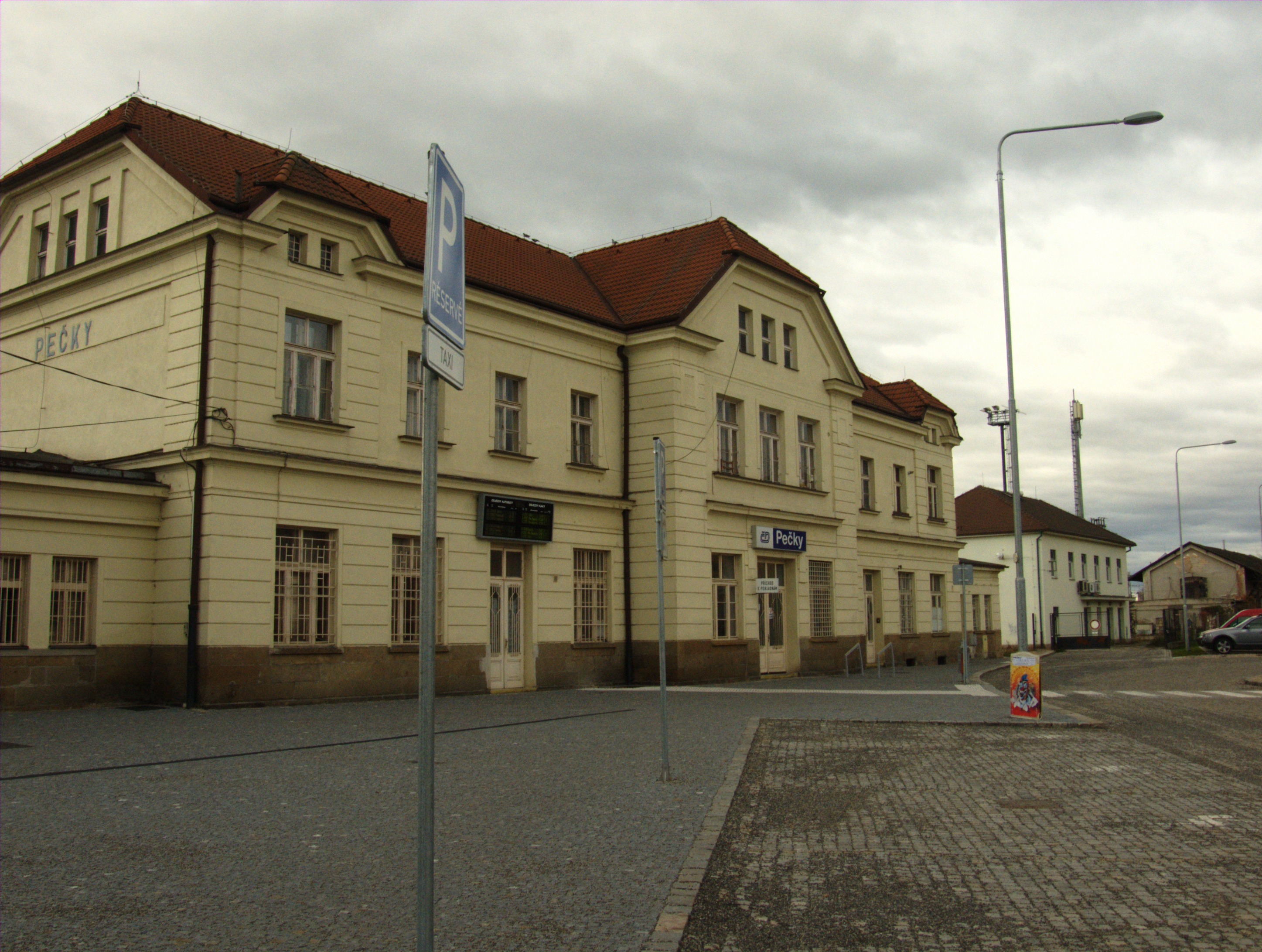 Pečky train station, Central Bohemian Region, CZ